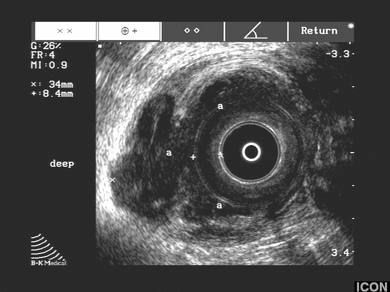 Anal fistula